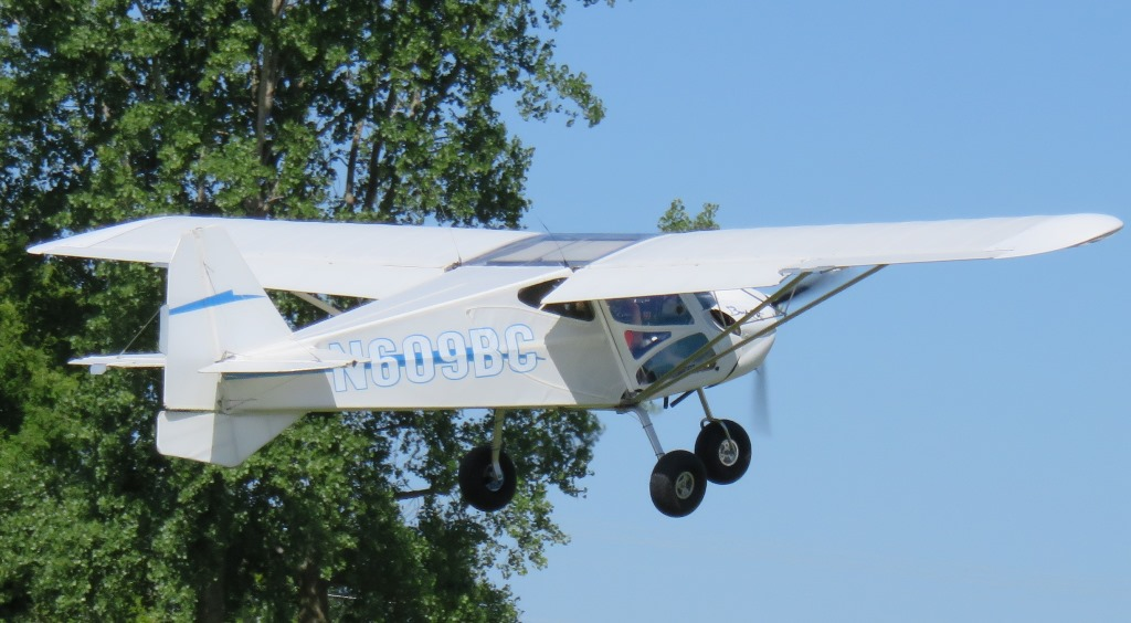 Rainbow Skyreach Bush Cat